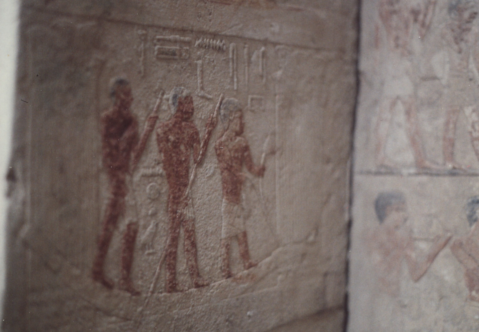 False door of the dwarf Seneb, detail: Seneb in a boat; found at Giza, 4th Dynasty, now Egyptian Museum Cairo